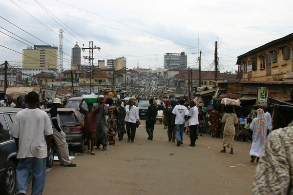 Market scene in Ibadan